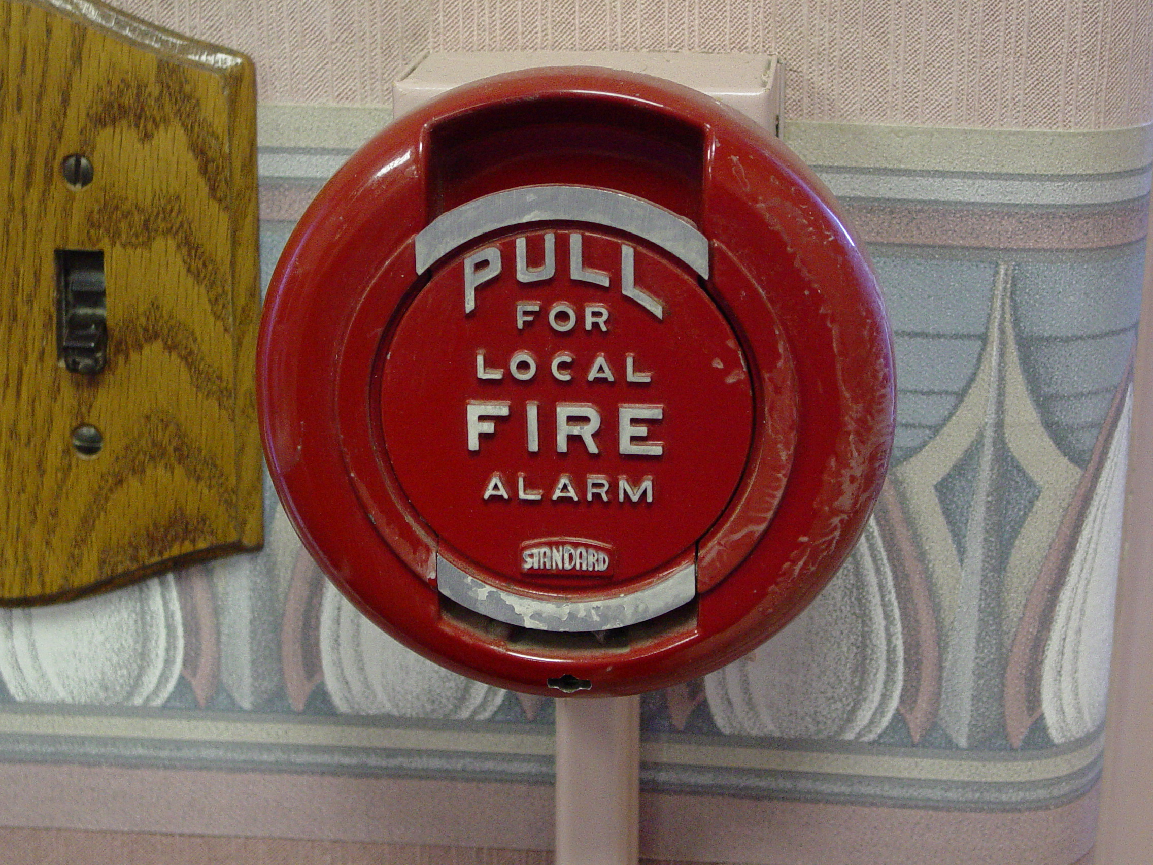 A Standard 200177 pull station in Harrison Hall at James Madison University.